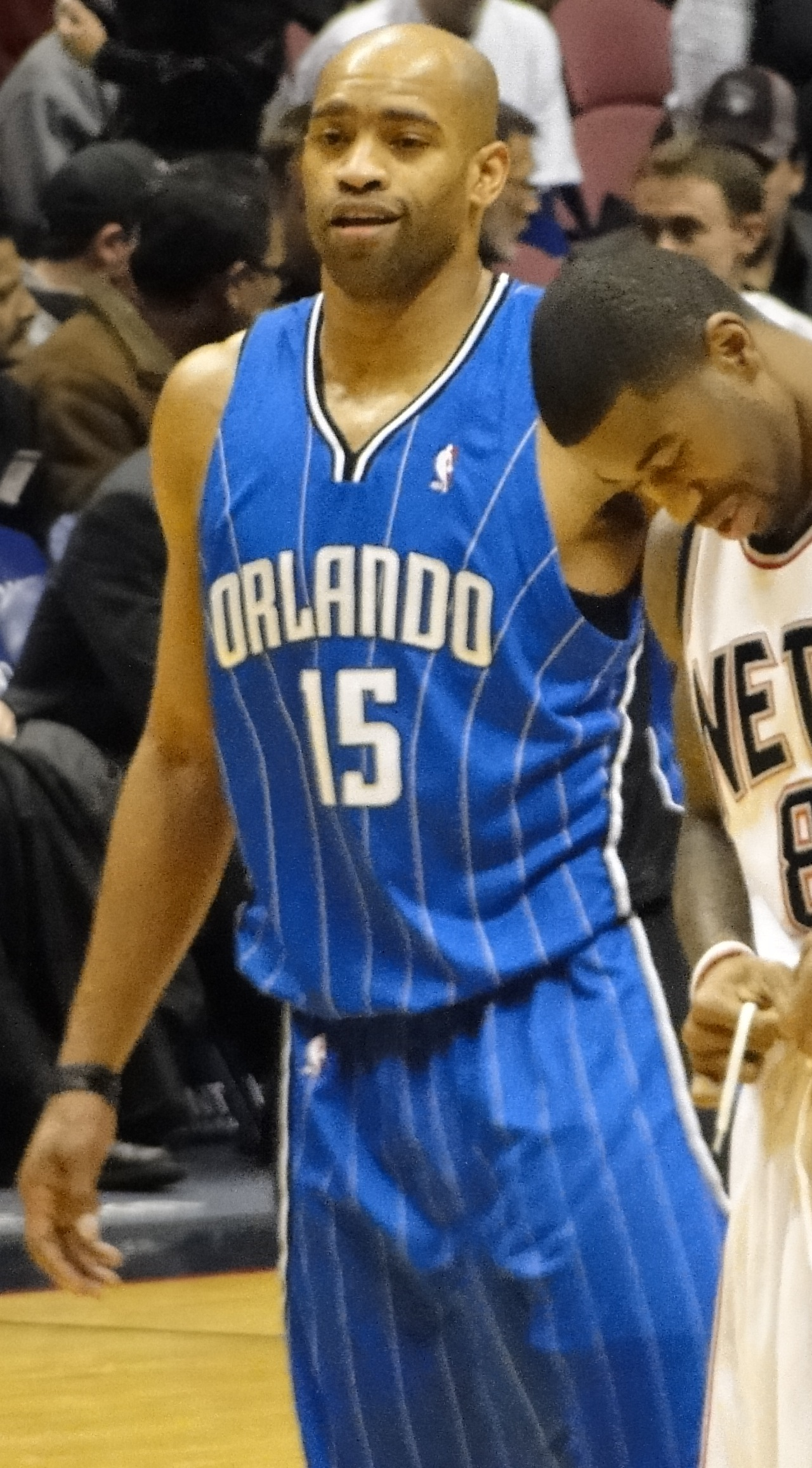 Vince Carter of the Orlando Magic